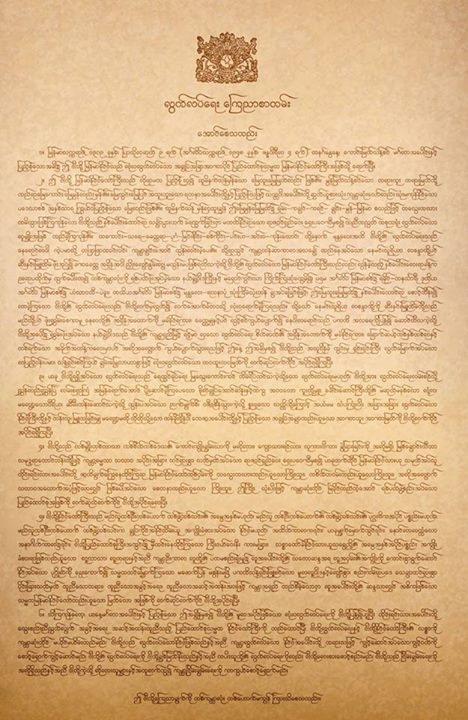 On 4 January 1948, Burma became an independent republic. This is the image of Declaration of Independence of Burma.